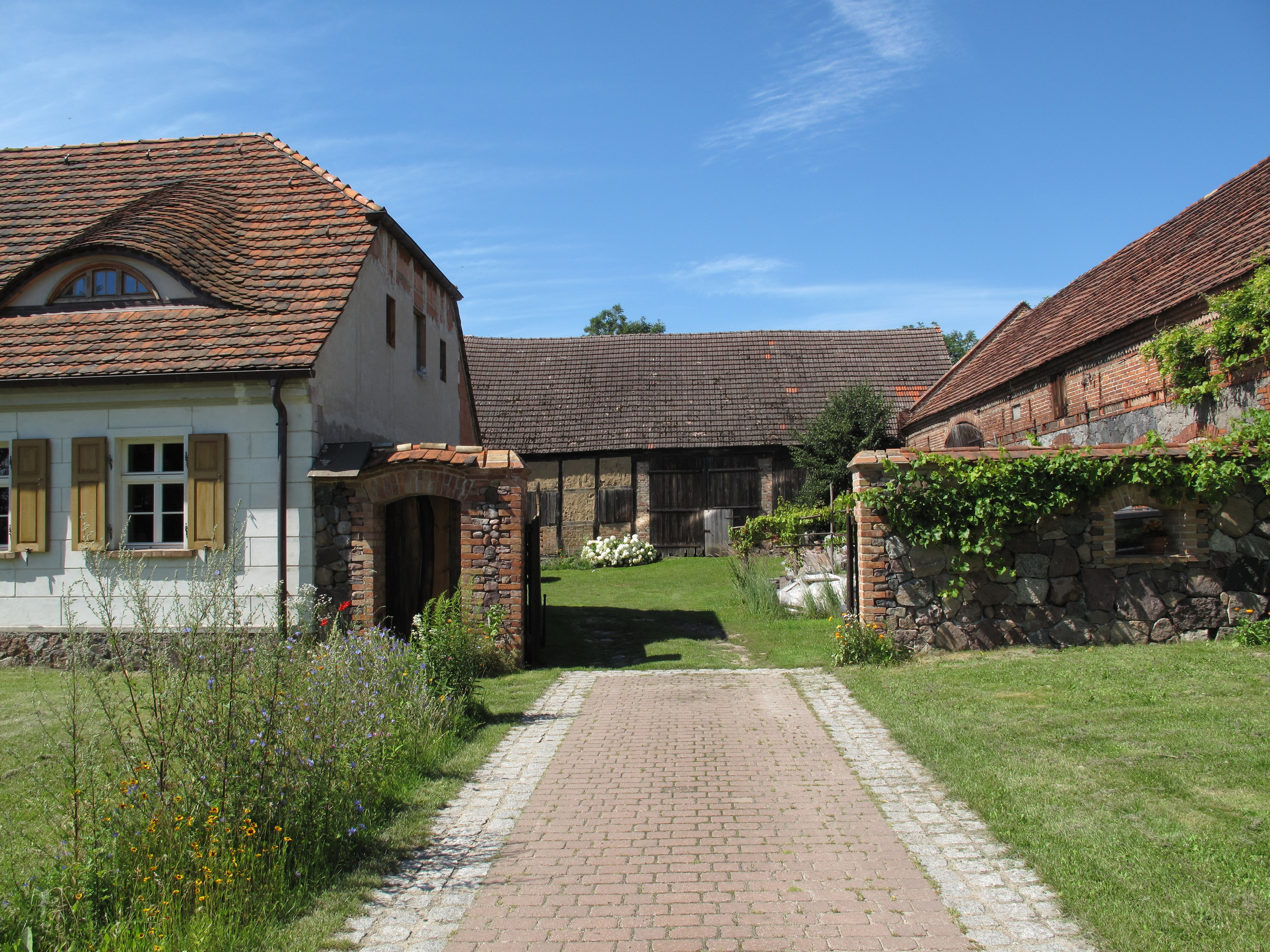 Listed farm house in Pritzhagen. Pritzhagen is a village of the municipality Oberbarnim in the District Märkisch-Oderland, Brandenburg, Germany. It is situated in the Märkische Schweiz Nature Park. The village green with its pond and the perimeter fieldstone-walls was extensively renovated in 2004.